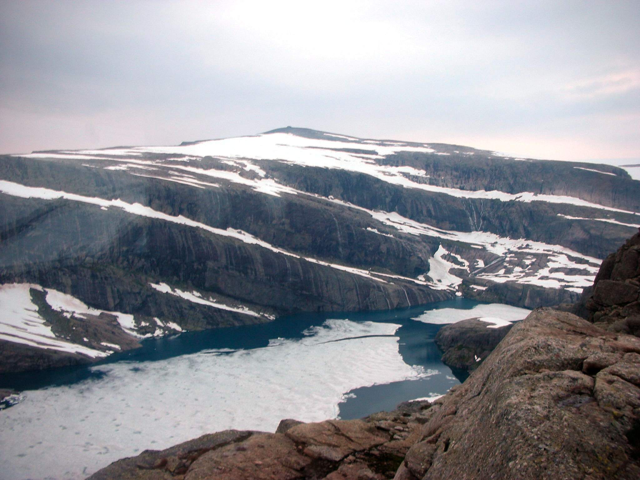 The mountain Gjegnen/Blånibba, in the western part of Norway, Sogn og Fjordane. Seen from the cottage Gjegnabu in south, near the small lake X-vatnet.